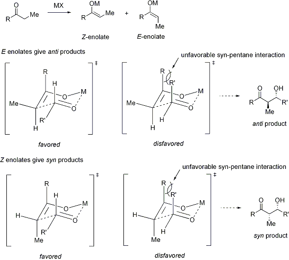 scheme 2, aldol, drawn by me